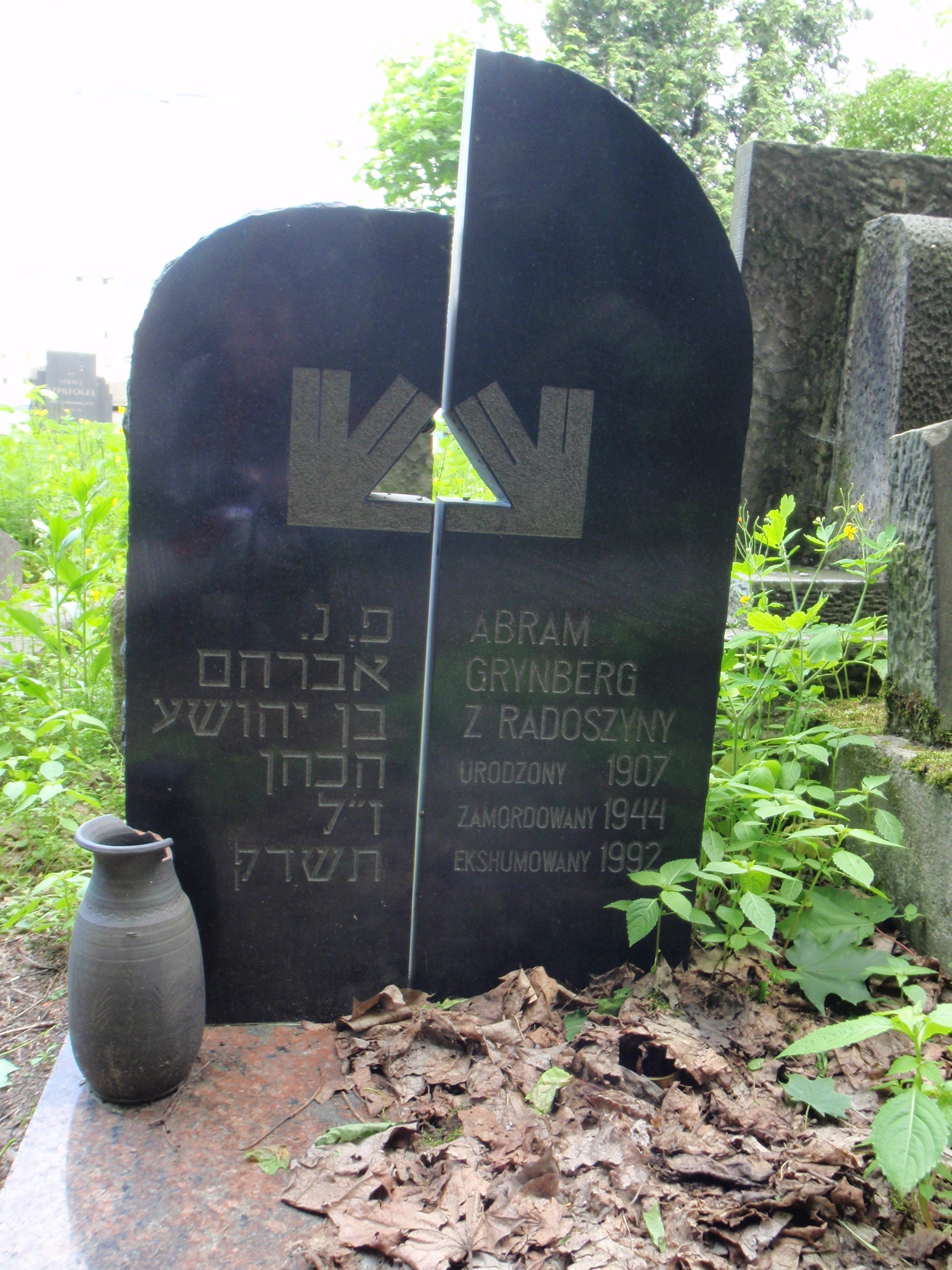 Grave of Abram Grynberg